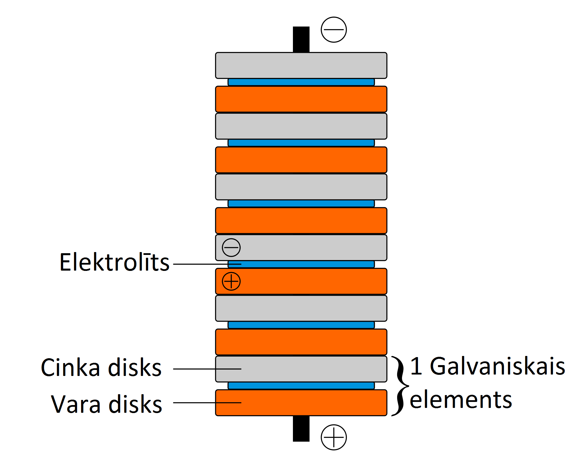 Volta staba shematiskais attēlojums, lai izveidotu A. Volta orģinālo līdzstrāvas avotu vara diski jāaizstāj ar sudraba.